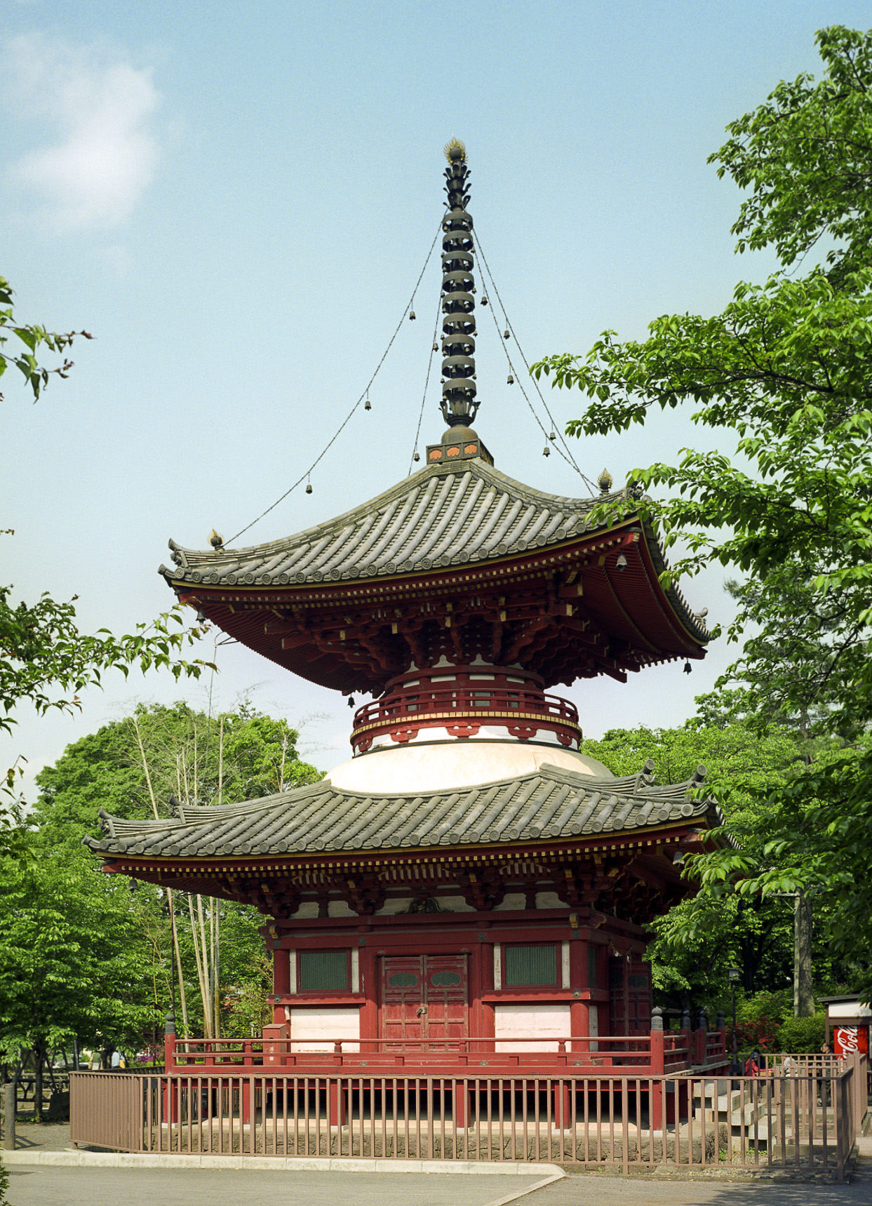 Tahōtō at Kita-in in Kawagoe, Saitama Prefecture, Japan